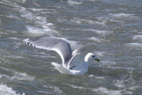 adult Kumlien's Gull (Larus glaucoides kumlieni) photographed 22 Feb 2009 in Hammond, IN, USA